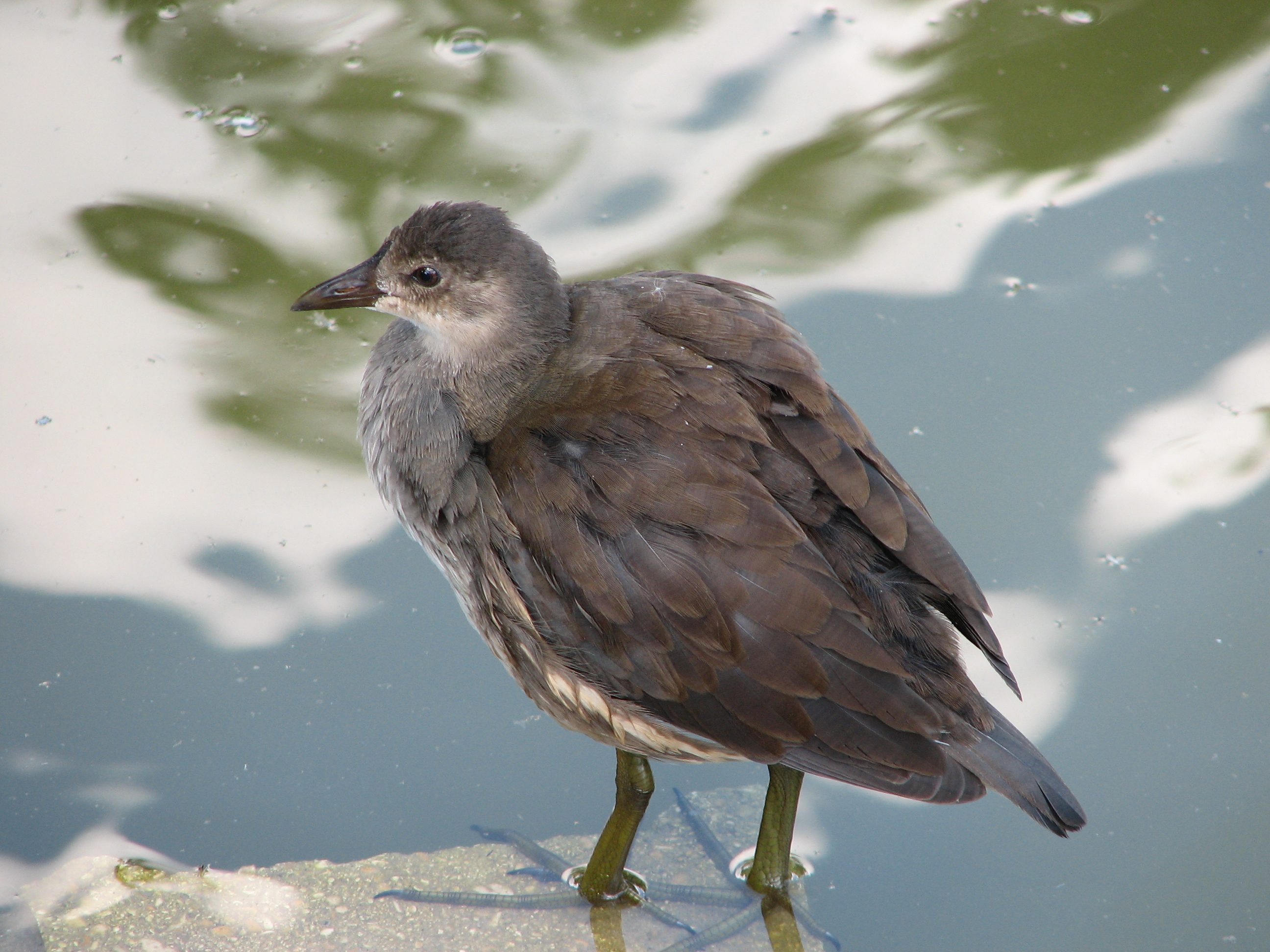 Young Common Moorhen Picture taken in Parc de Bercy (Paris)